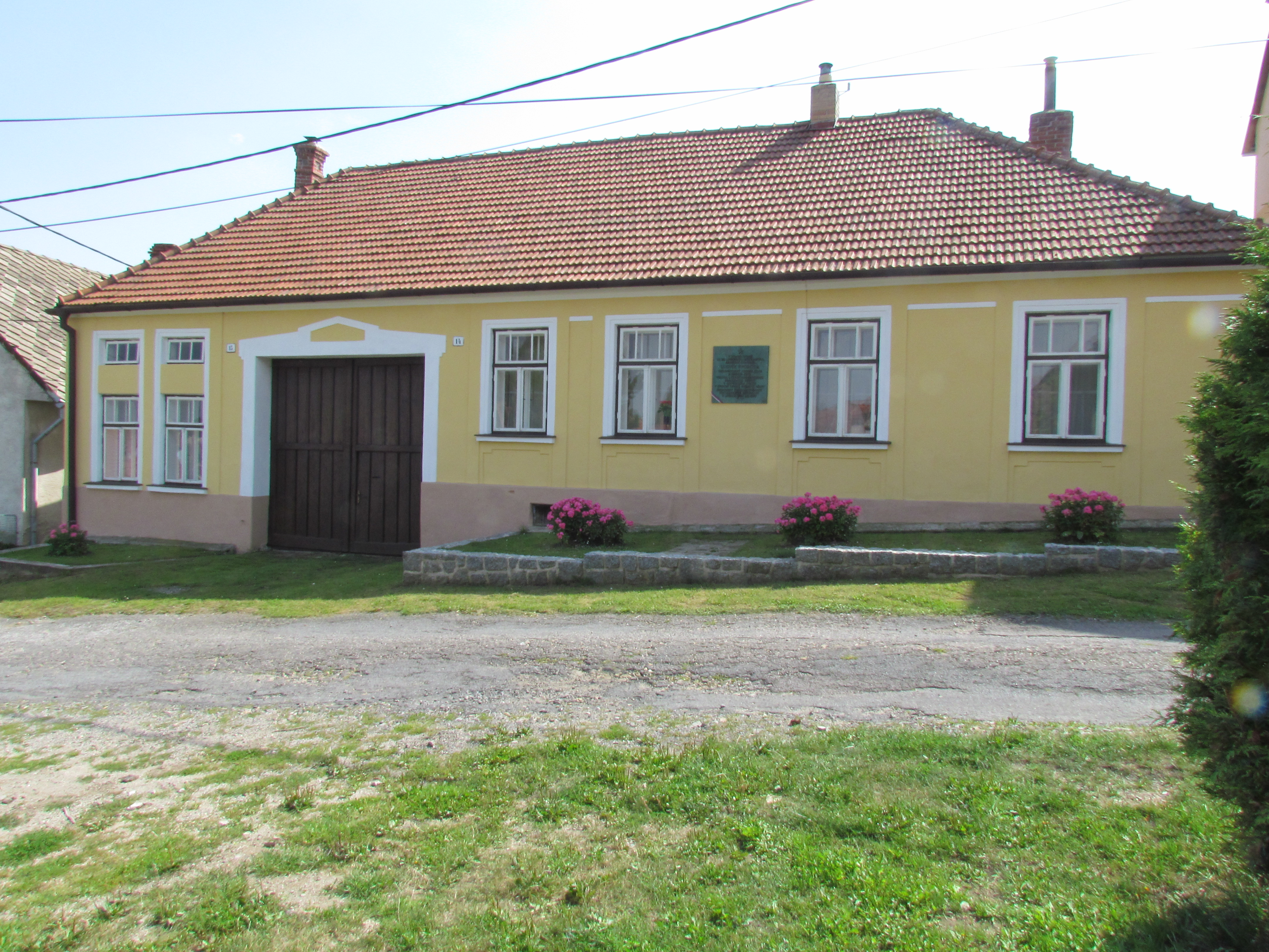 Overview of native house of Ludvík Svoboda in Hroznatín, Třebíč District.